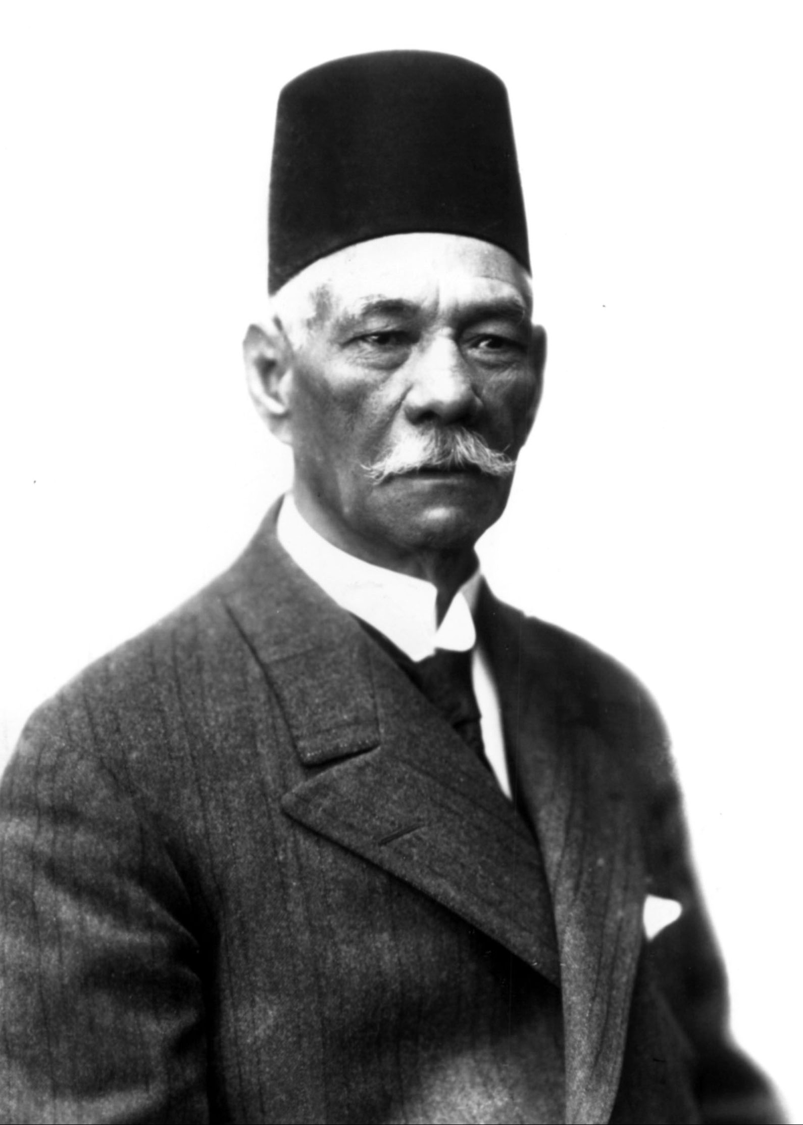 Photograph of Saad Zaghloul (1859–1927), former Prime Minister of Egypt. This is one of the most famous photographic portraits of Zaghloul. It was published at least as early as the mid-1920s since it was printed in Zaki Fahmi's book Safwat al-'Asr (1926). It appears in page 132 in the 1995 re-edition of the book. The caption below the photograph identifies its author as Hanselman (تصوير هنزلمان).